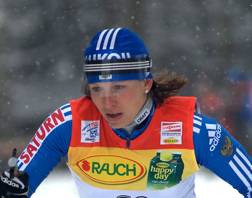 Natalia Korosteleva at the Tour de Ski 2010 in Oberhof